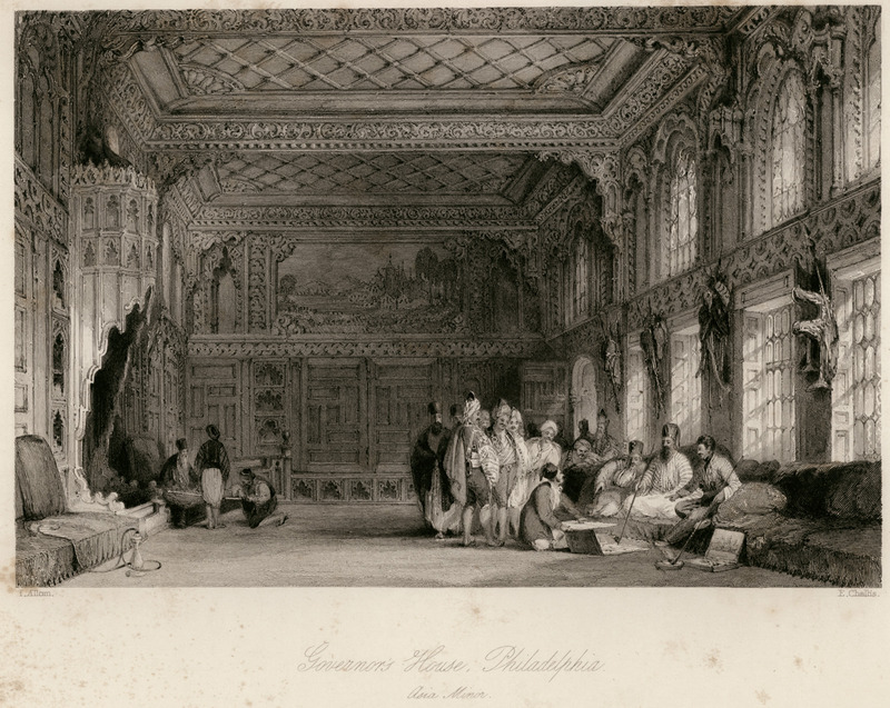 Illustration from Constantinople and the Scenery of the Seven Churches of Asia Minor illustrated…, With an historical Account of Constantinople, and Descriptions of the Plates…, London/Paris, Fisher, Son & Co. (1836-38), by Robert Walsh and Thomas Allom